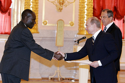 ST ALEXANDER HALL, GRAND KREMLIN PALACE. Ceremony for the presentation by foreign ambassadors of their letters of credentials. Ambassador of the Republic of Angola Samuel Tito Armandu presents his letter of credentials. In the background is Russian Foreign Minister Sergei Lavrov.